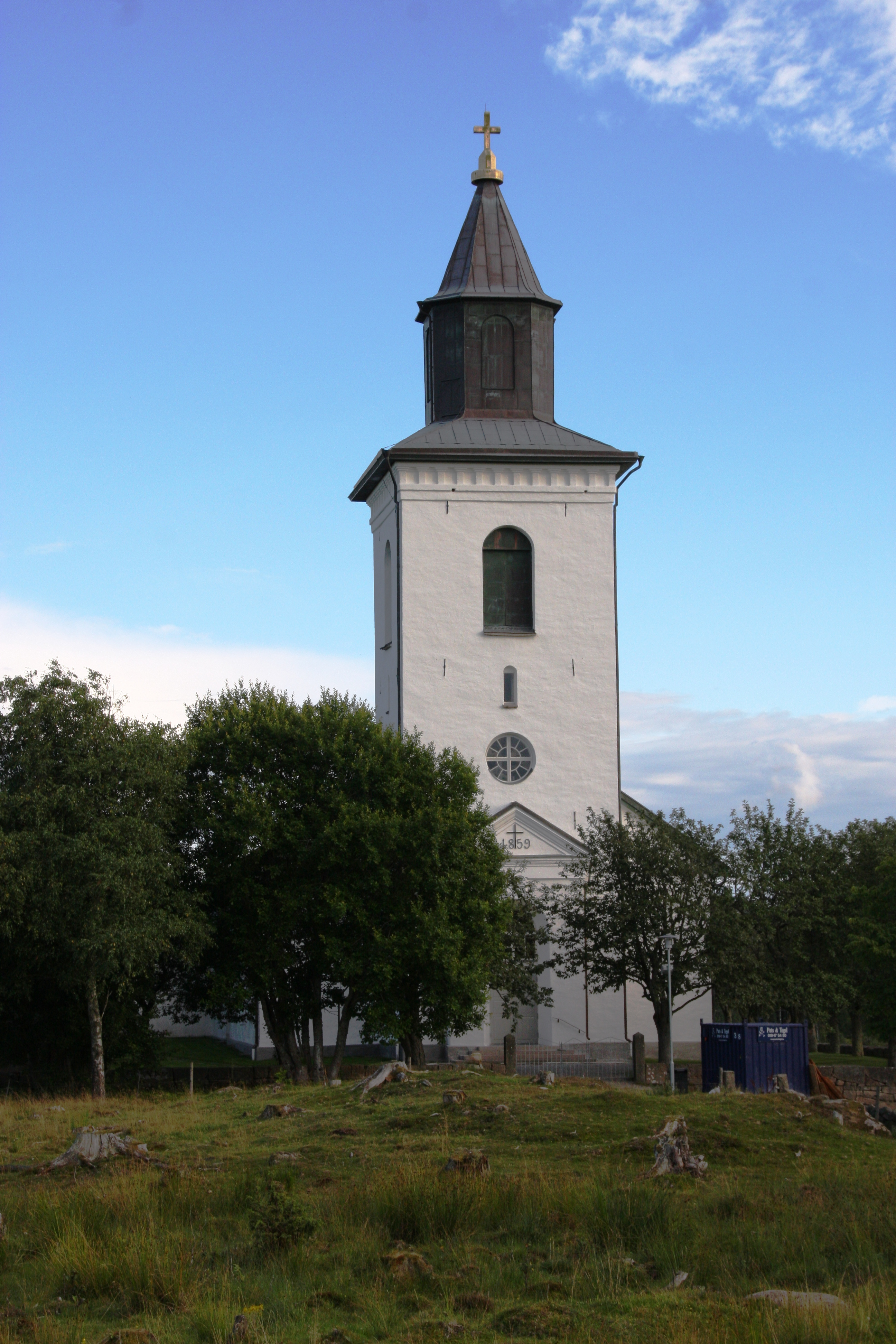 Tossene kyrka, sentrala Sotenäs kommun - Bohus län.